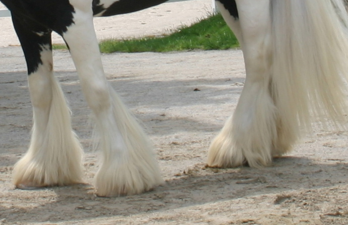 The hair on a horse's legs called feather.